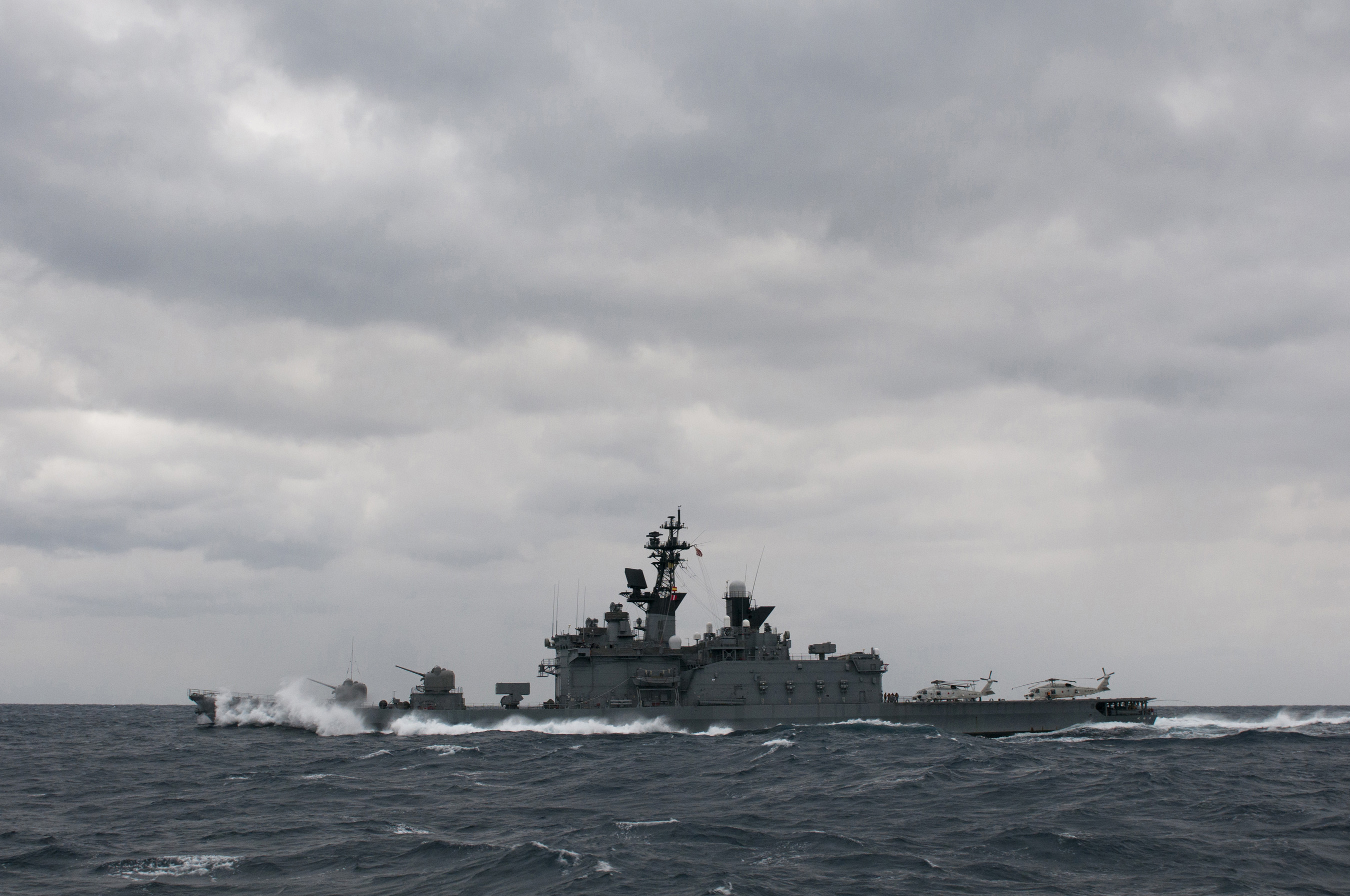 PACIFIC OCEAN (Jan. 10, 2011) - The Japan Maritime Self-Defense Force destroyer JS Kurama (DDH-144) is underway in the Pacific Ocean. (U.S. Navy photo by Mass Communication Specialist 2nd Class James R. Evans/Released) Nikon D300S